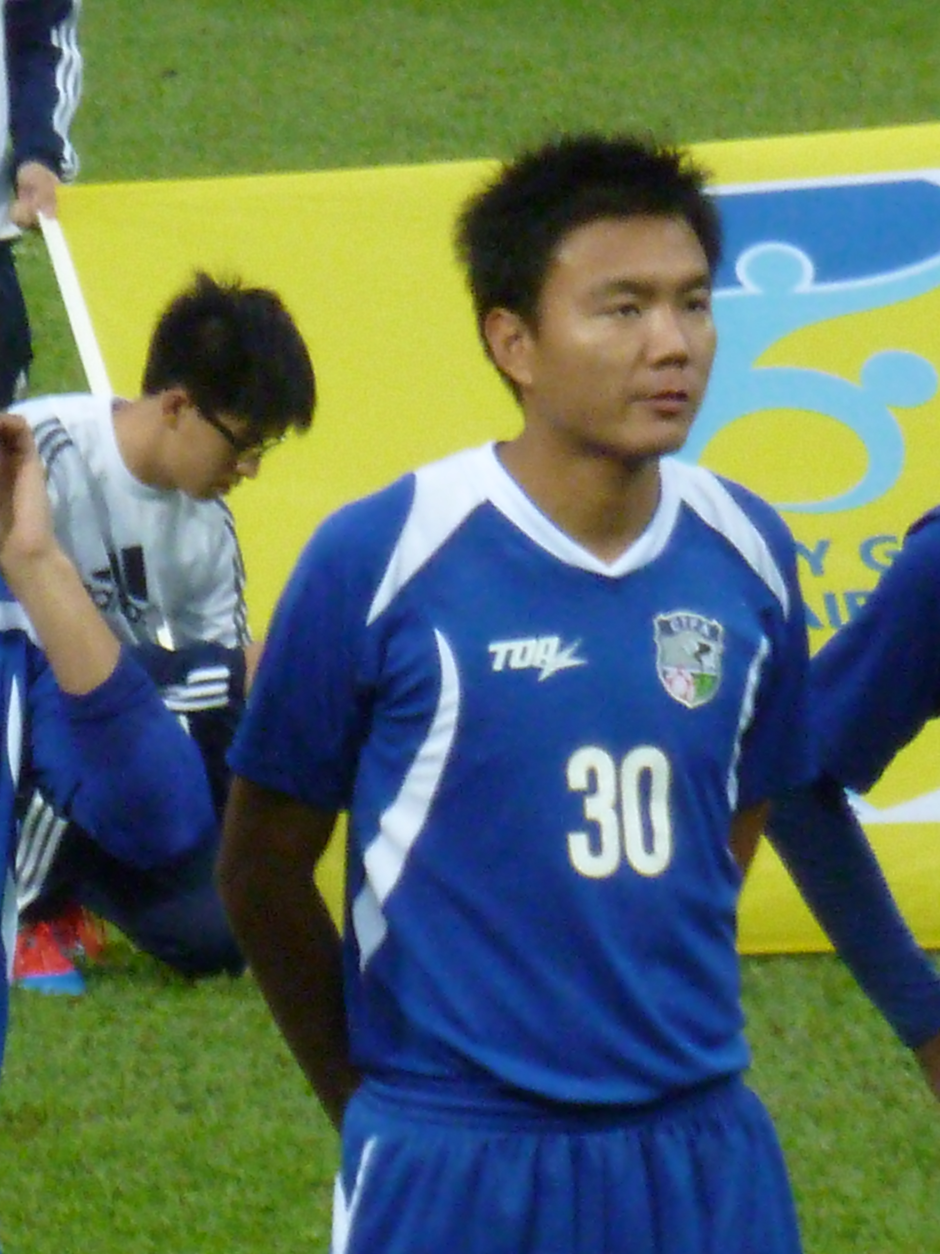 Chiang Ming Han (01 Dec 2012, EAFF East Asian Cup 2013 Preliminary Competition Round 2, Chinese Taipei vs DPR Korea, Mong Kok Stadium)中文（香港）: 蔣明翰 (01 Dec 2012, 2013東亞盃外圍賽第二圈, 中華台北 vs 朝鮮, 旺角大球場)